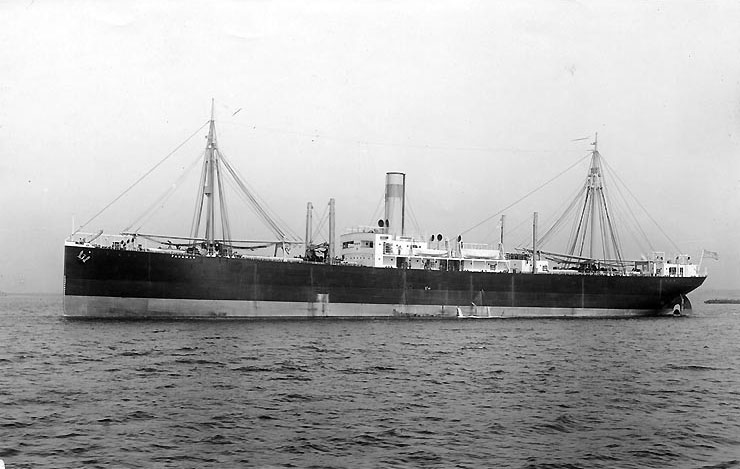 S.S. Panaman (American Freighter, 1913) Off Baltimore, Maryland, probably when first completed in 1913. This ship served as USS Panaman (ID # 3299) in 1918-1919. U.S. Naval Historical Center Photograph.